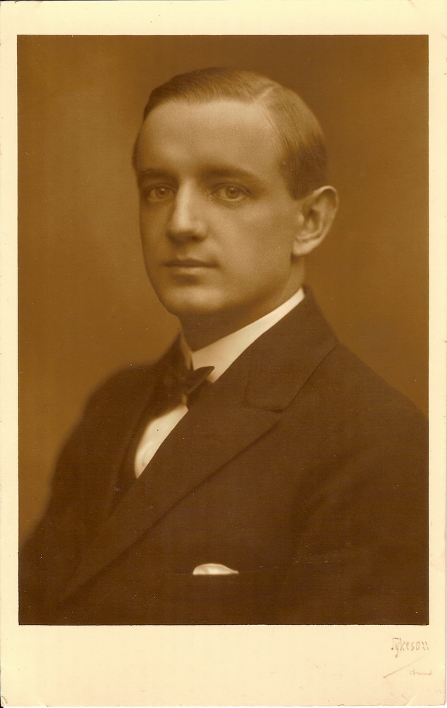 Joël Laurin (1899-1981), Swedish jurist; mayor of Helsingborg and president of Göta hovrätt.